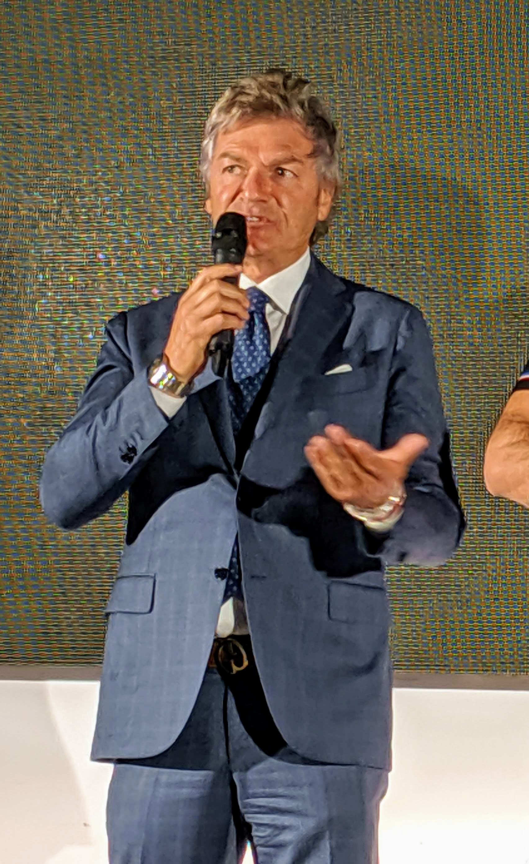 Italian football manager and former footballer Giancarlo Antognoni.